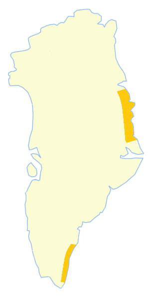 Norwegian territorial claims in East Greenland 1931 - 1933